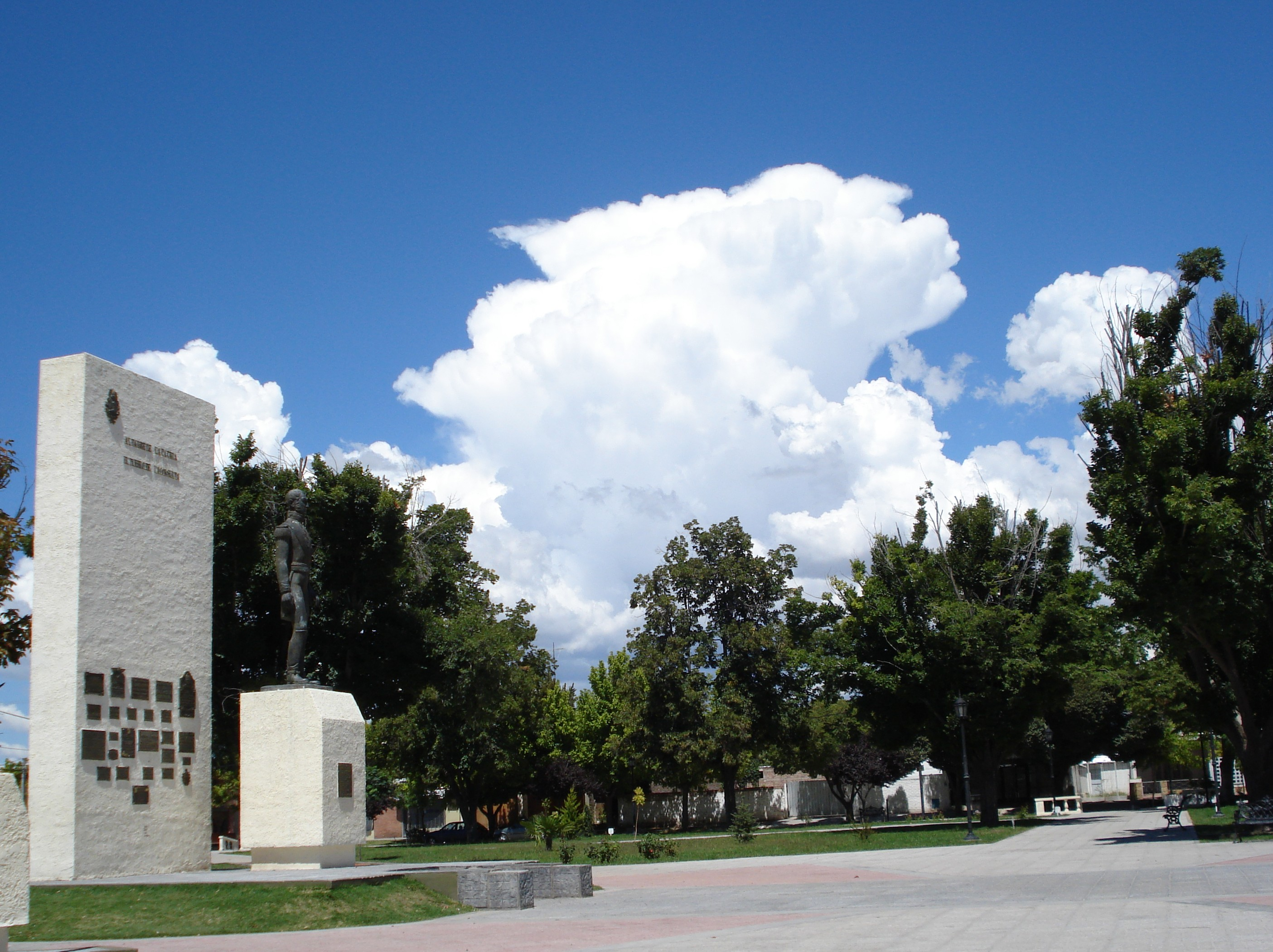 Plaza in La Consulta